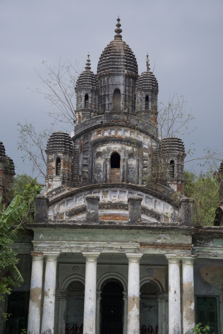 A temple in Choto Rasbari in Tollygunge area of Kolkata.